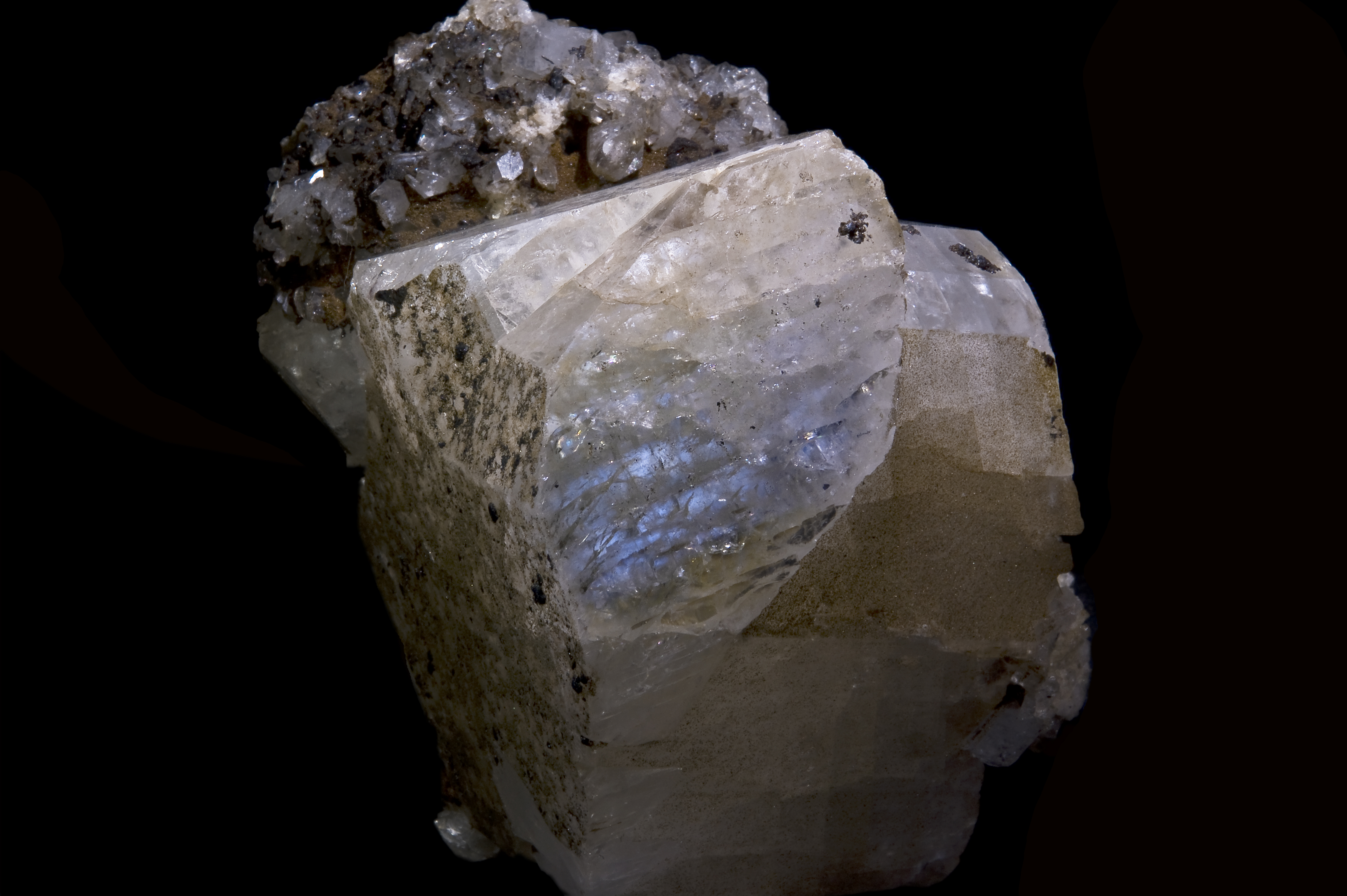 Adularia (Moonstone)- Adularia showing adularescence - Deposit topotype - Adula Mts, Ticino (Tessin), Switzerland (7x6.5cm)